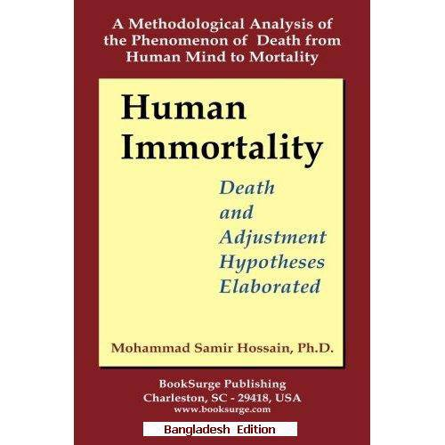 This is the photo of Human Immortality's Bangladesh edition